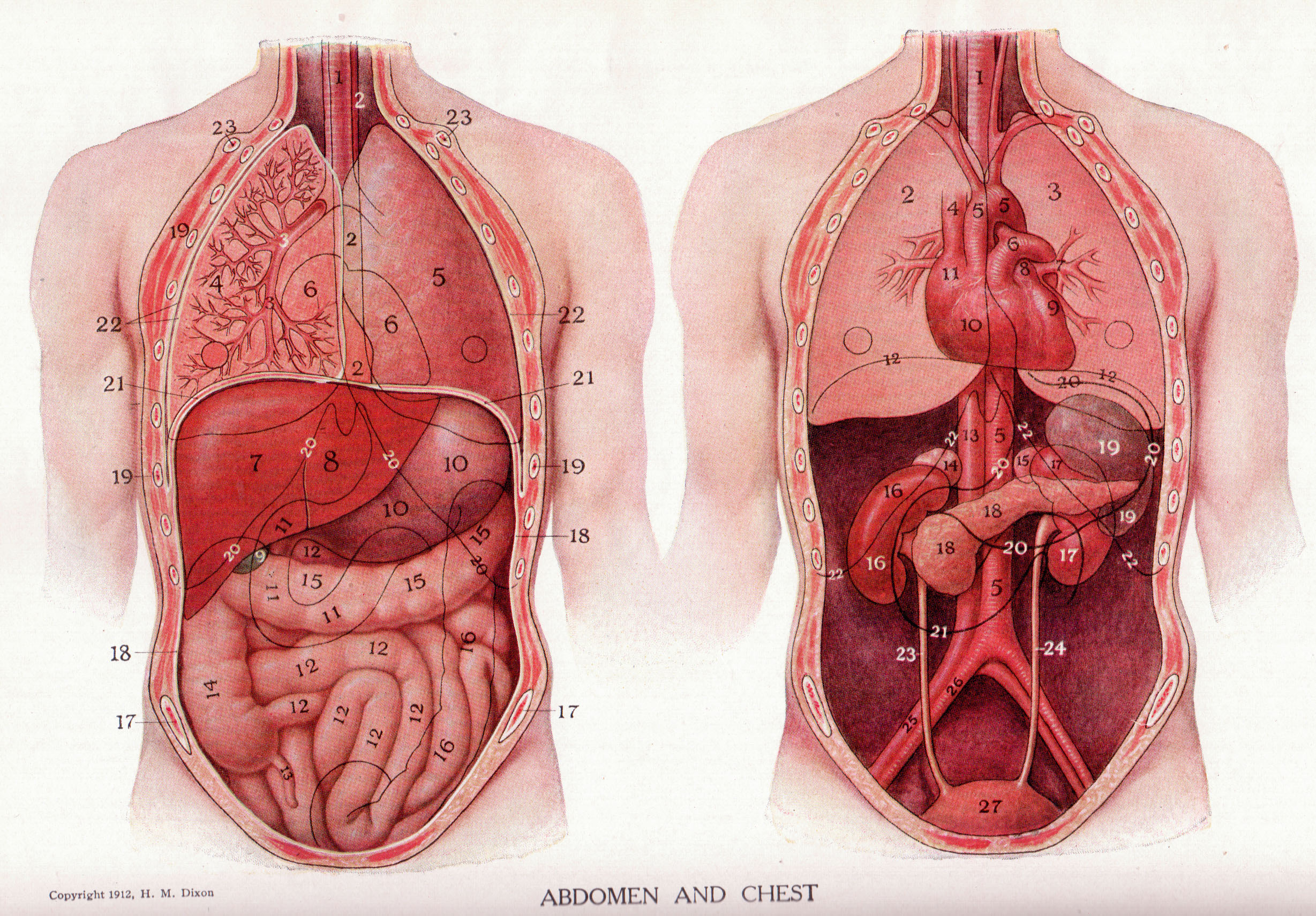 This color illustration is from the public domain book "The Home and School Reference Work" Volume I by The Home and School Education Society, H. M. Dixon, President and Managing Editor. The book was published in 1917 by The Home and School Education Society. This image of the inside of a human chest and adomen appears between pages 4 and 5 Flickr data on 2011-08-23: Tags: 1917, book, The Home and School Reference Work, copyright free, creative commons, flickr, free, freebie License: CC BY 2.0 User: perpetualplum Sue Clark